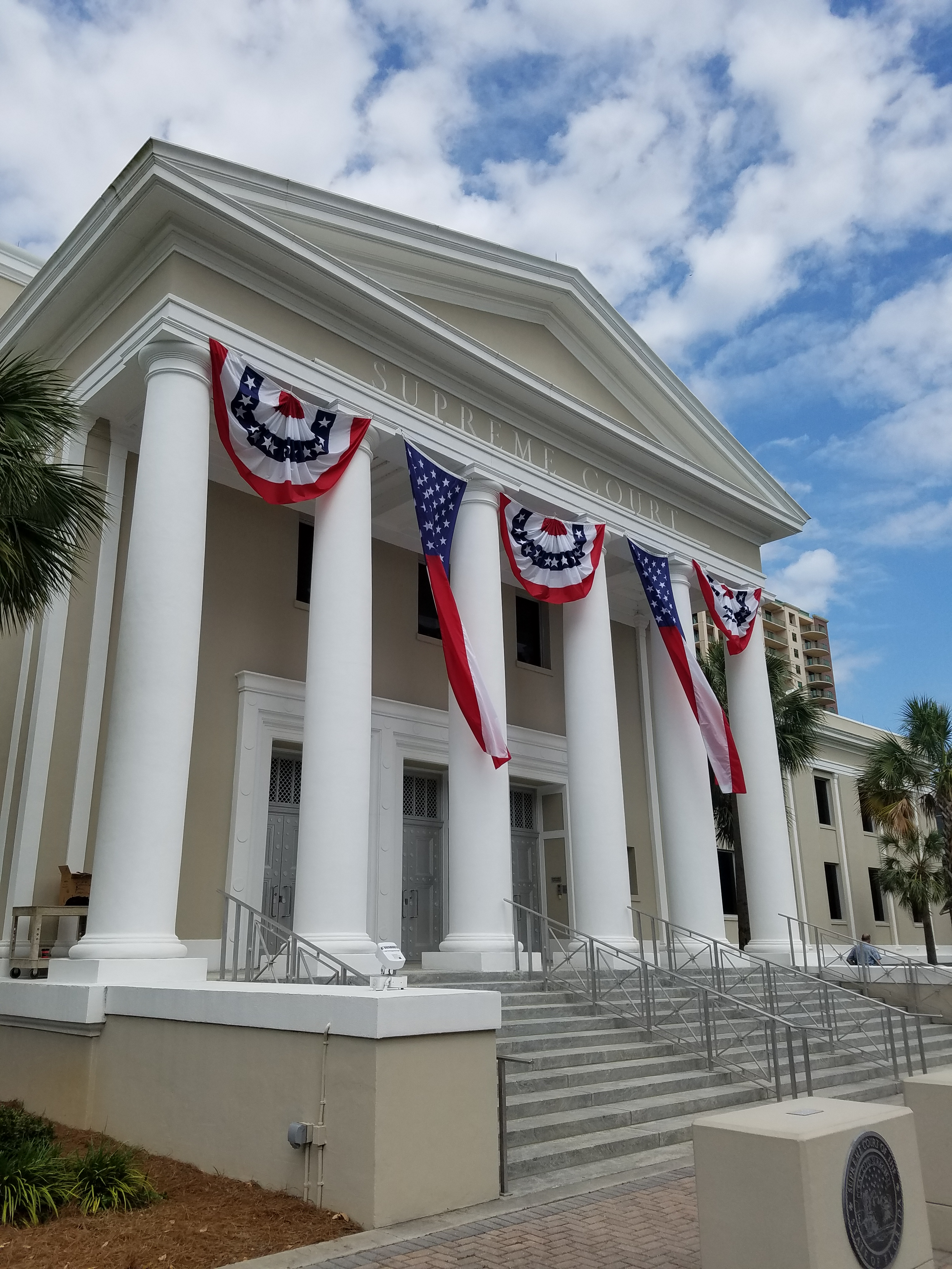 The Florida Supreme Court Building in 2019 for the Investiture of Justice Barbara Lagoa.